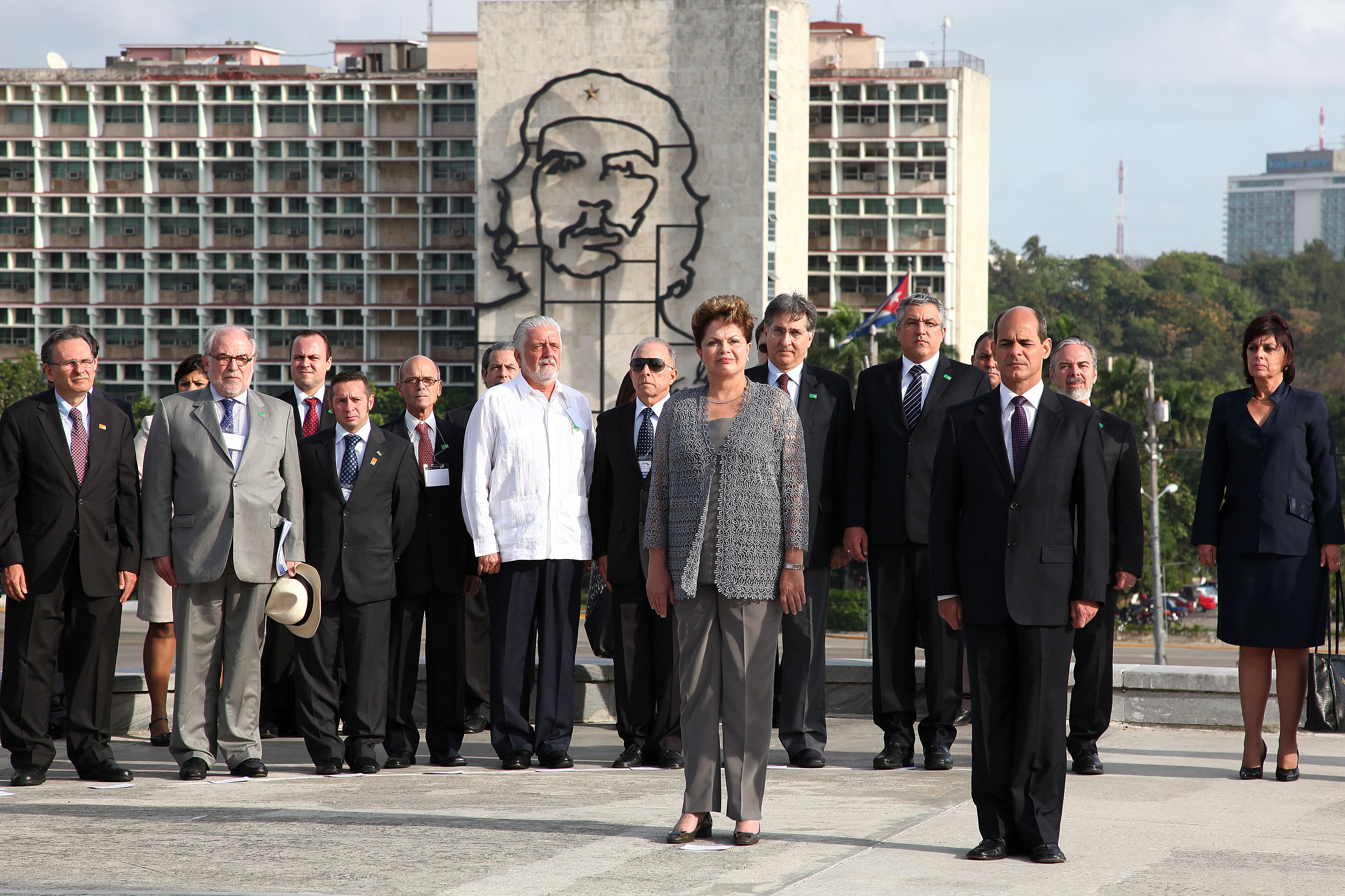 President of Brazil Dilma Rousseff in Plaza de la Revolución (Revolution Square), Havana, Cuba. Ministry of Interior building in backround, with artwork of Che Guevara.